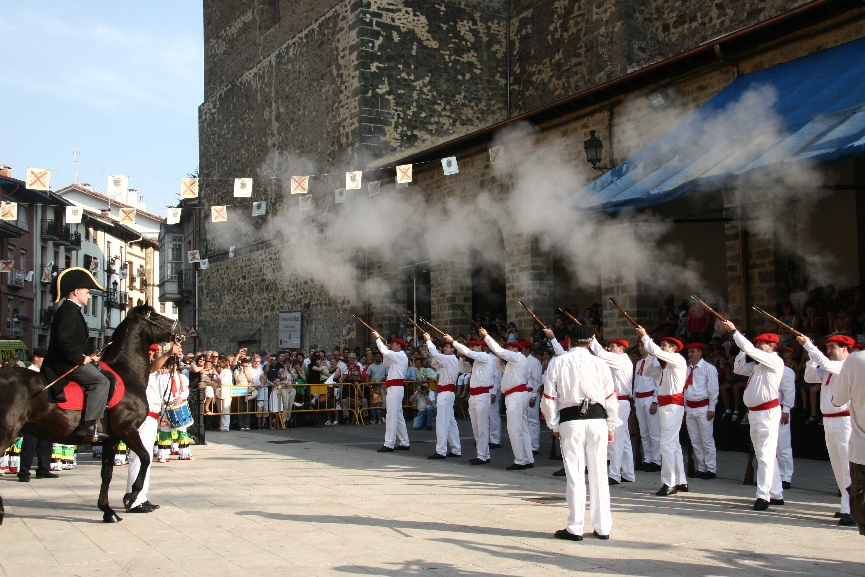 Mairuaren alardea feast in Antzuola, Gipuzkoa.